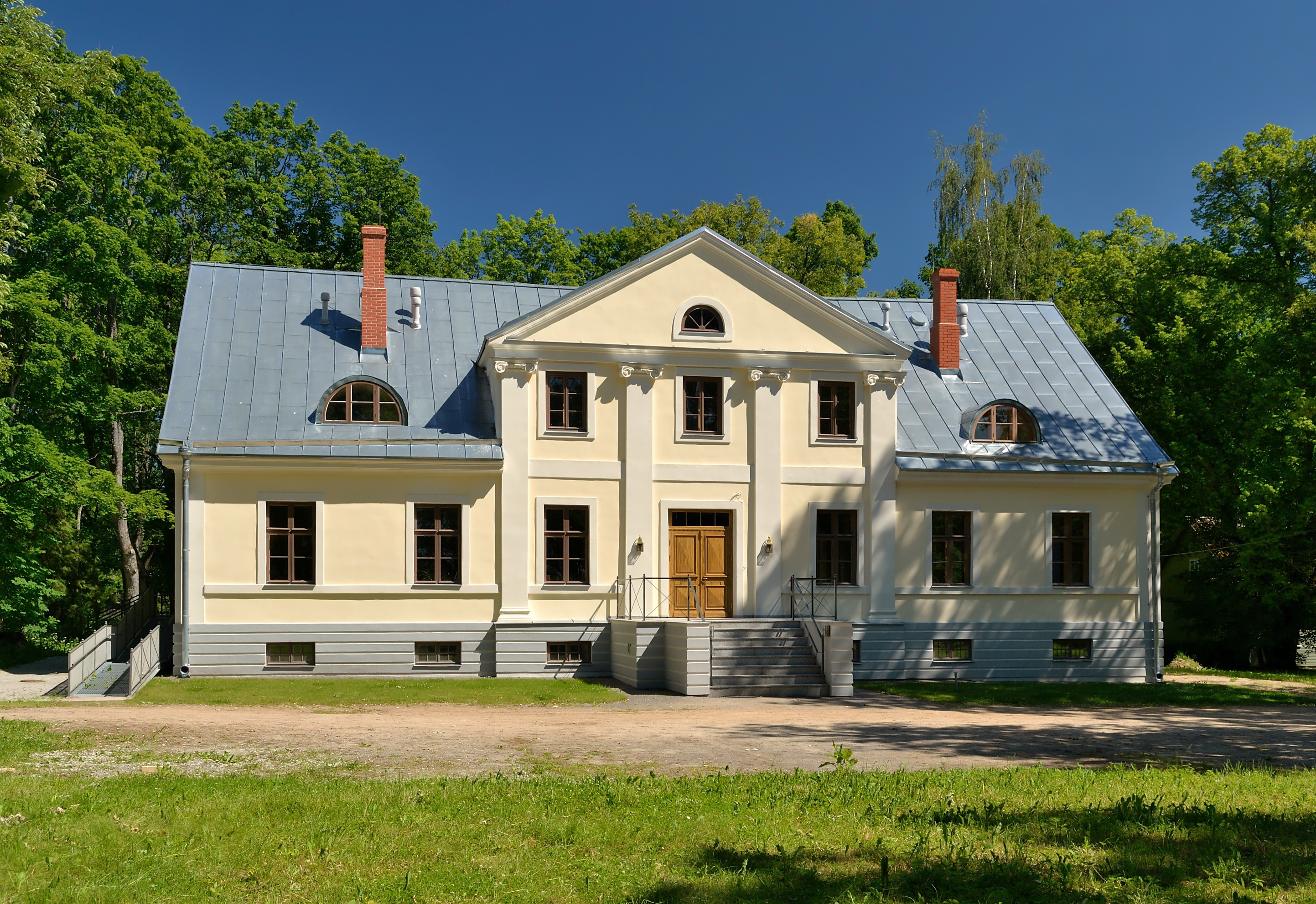 Tammistu manor main building